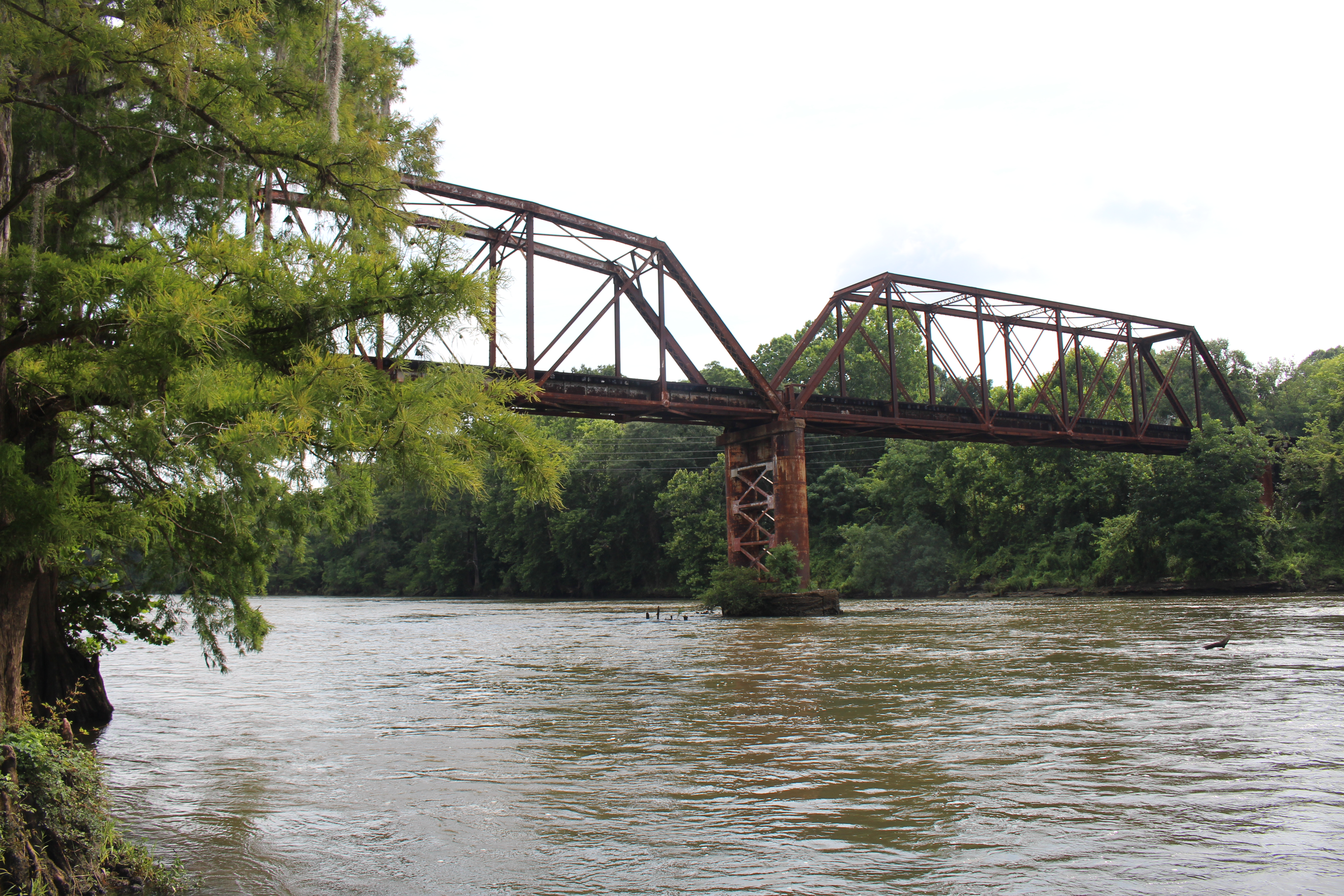 Railroad bridge, Flint River, Albany, Dougherty County, Georgia